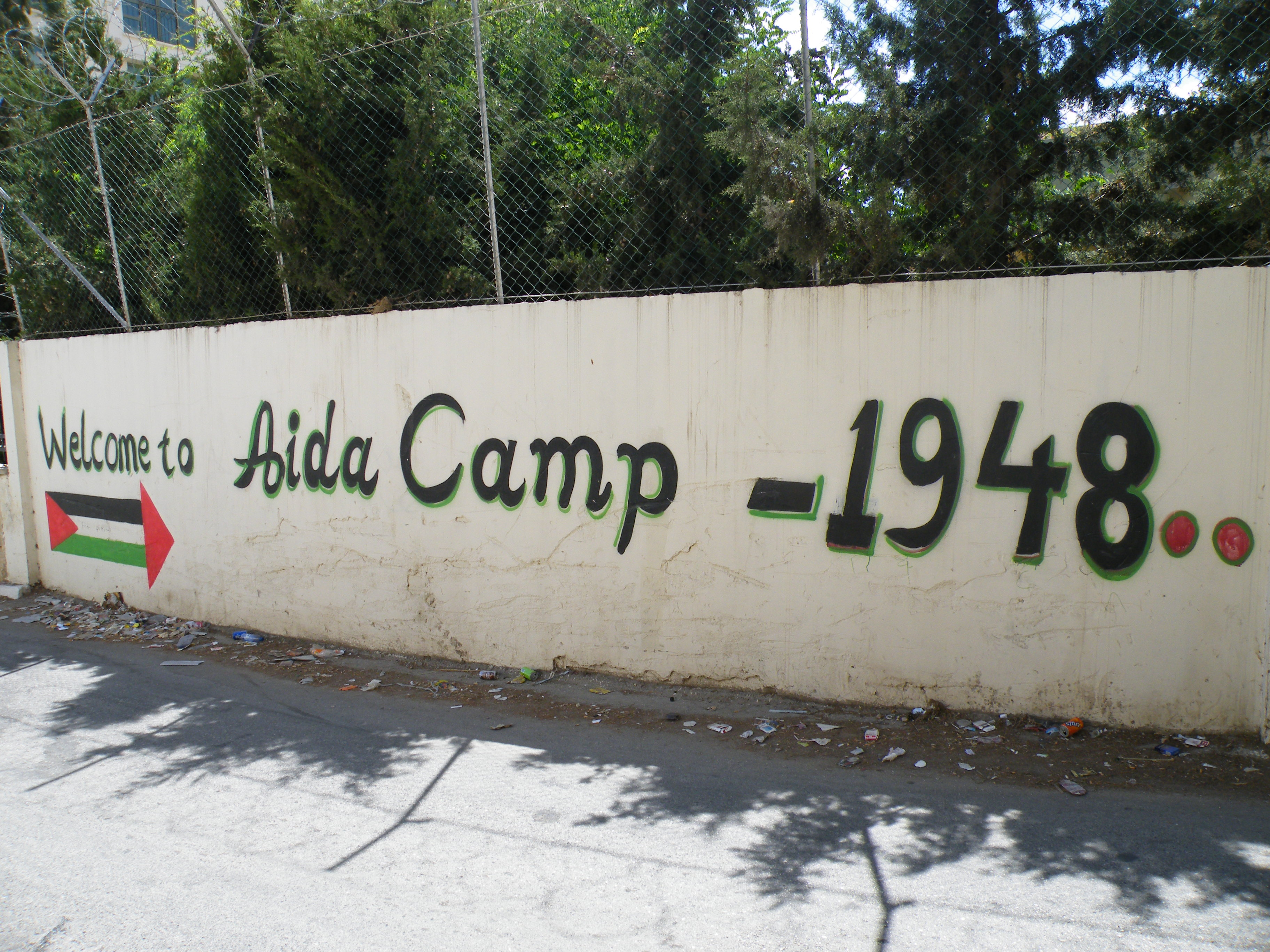 One of the murals at the entrance to the refugee camp.